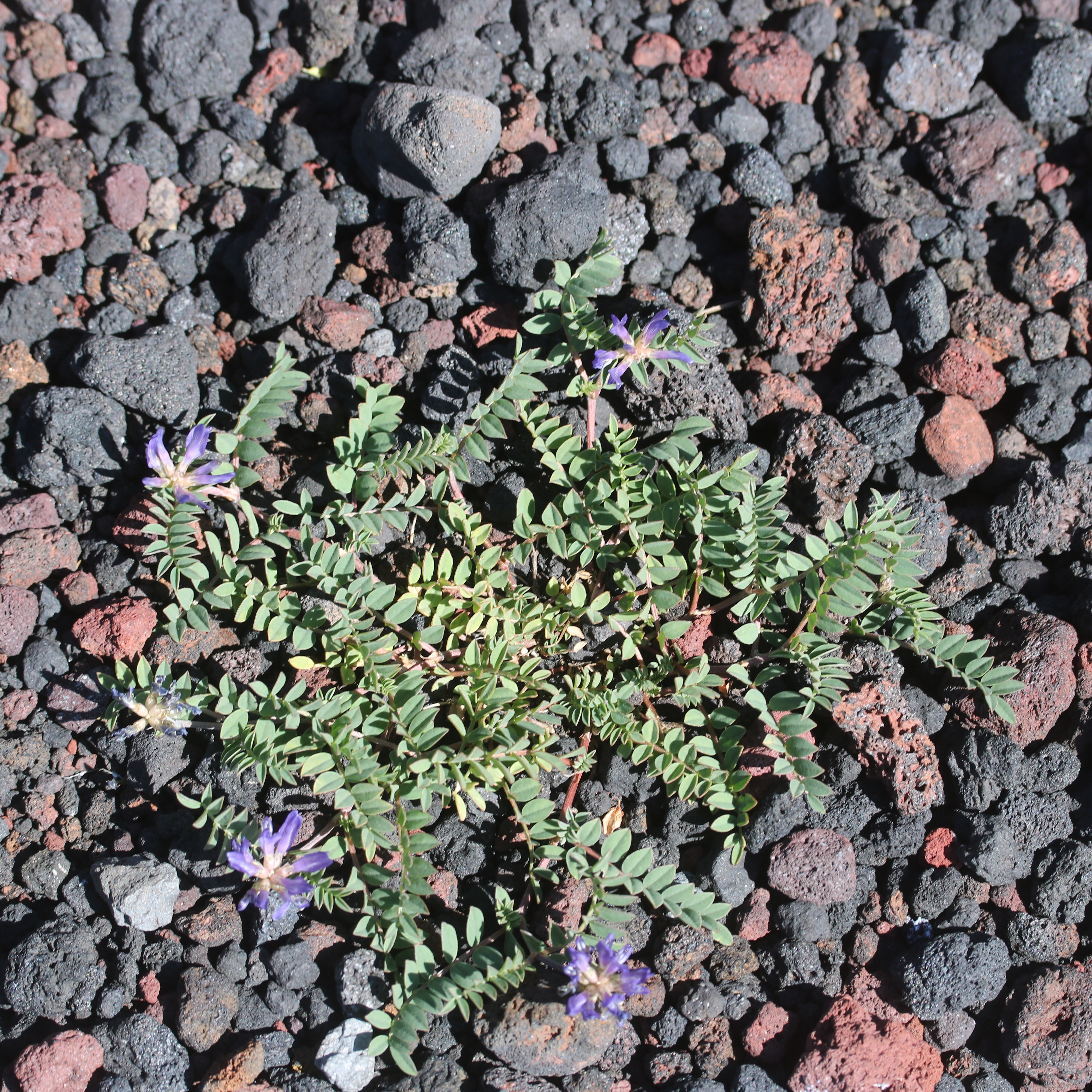 Astragalus laxmannii var. adsurgens in Mount Fuji, Gotenba, Shizuoka Prefecture, Japan.